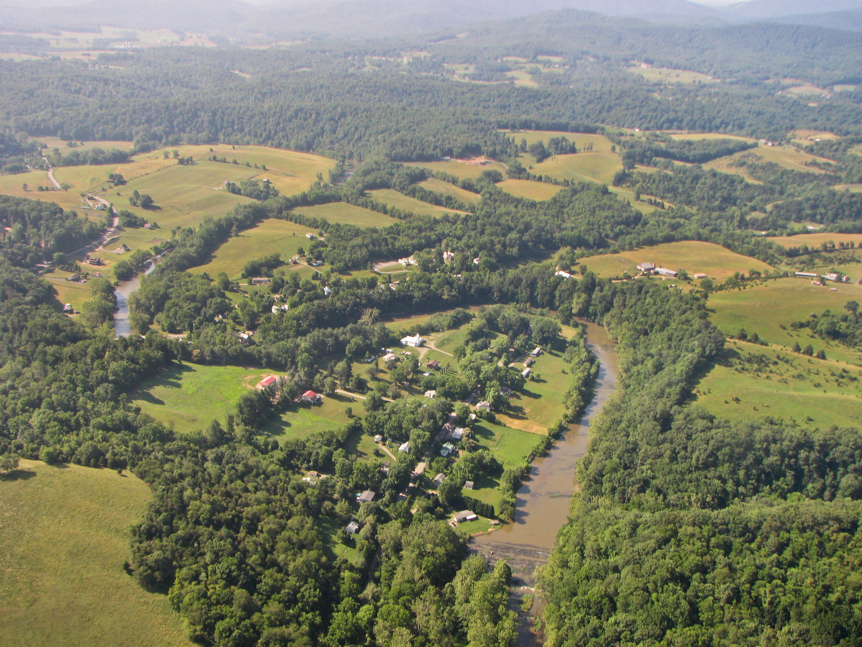 An aerial photograph of the Little River as it winds its way through the communities of Snowville and Graysontown along the Pulaski and Montgomery county line in southwest Virginia. The photo was shot looking toward the south-southeast with the Little River flowing north (towards the bottom of the image). Copyright 2010 by Anthony Phillips/WX4SNO.